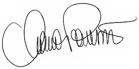 Italian singer Laura Garcia's signature